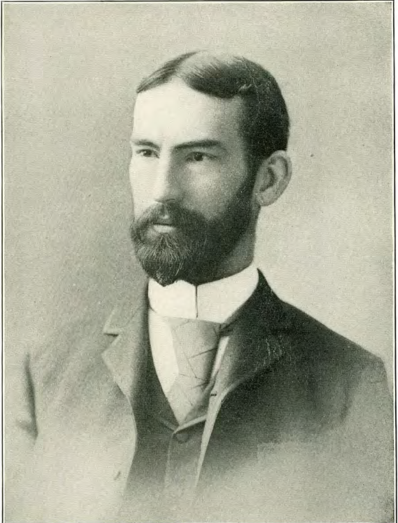 American economist Richmond Mayo-Smith, photographed at some point before his death in 1901.